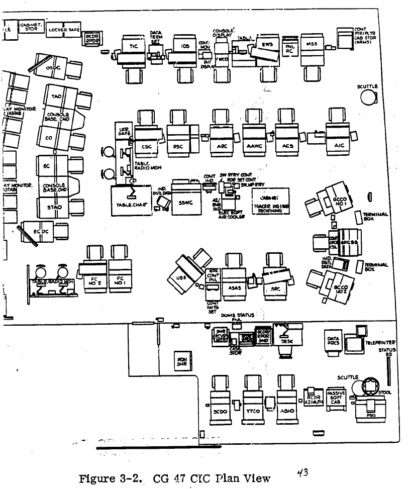 Combat Information Center of CG-47 class cruisers. (Likely only applicable for early baseline ships without Tomahawk as no strike consoles are pictured)